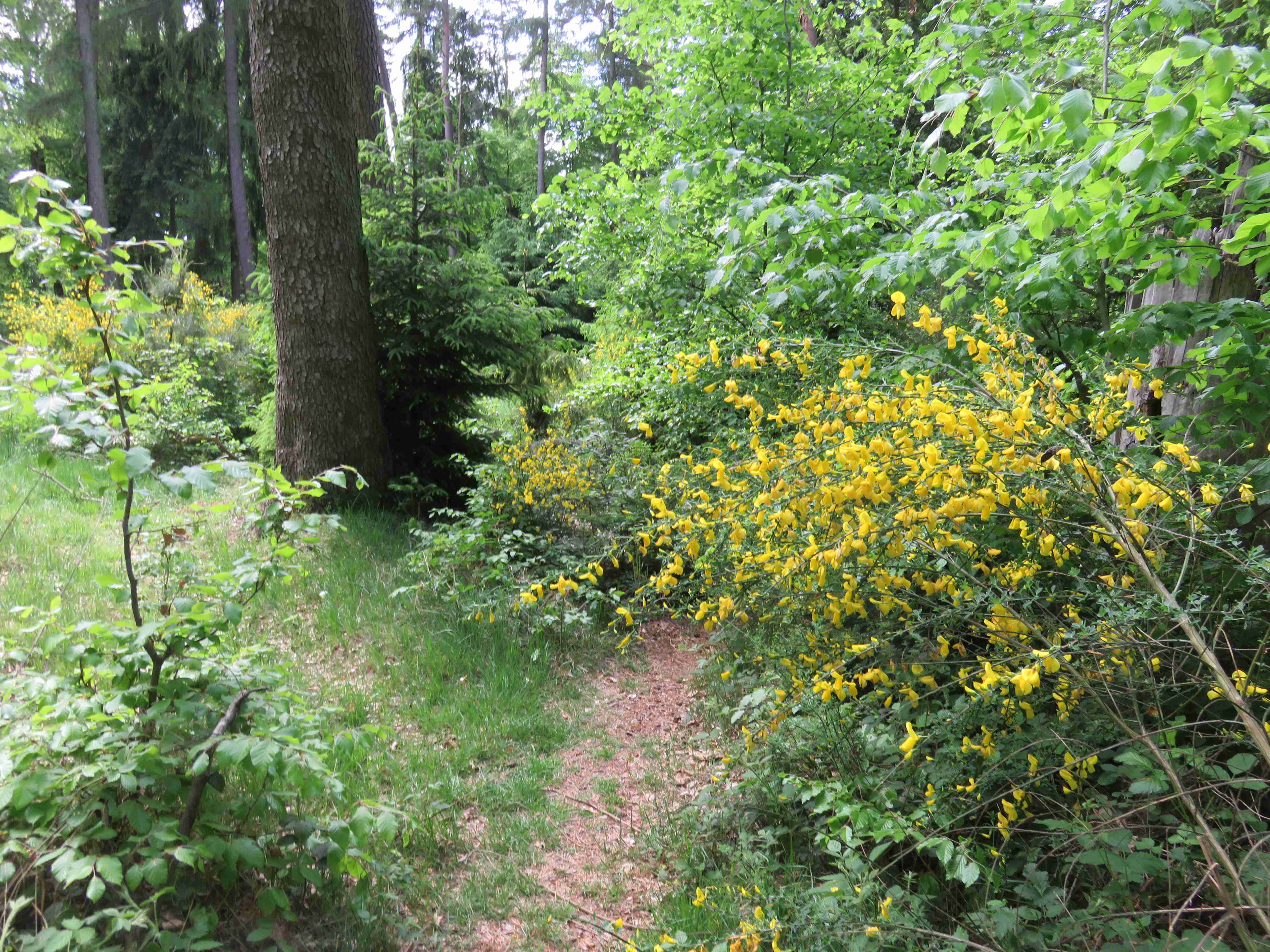 Path from the Kaisergarten to the 'Alte Unger' square